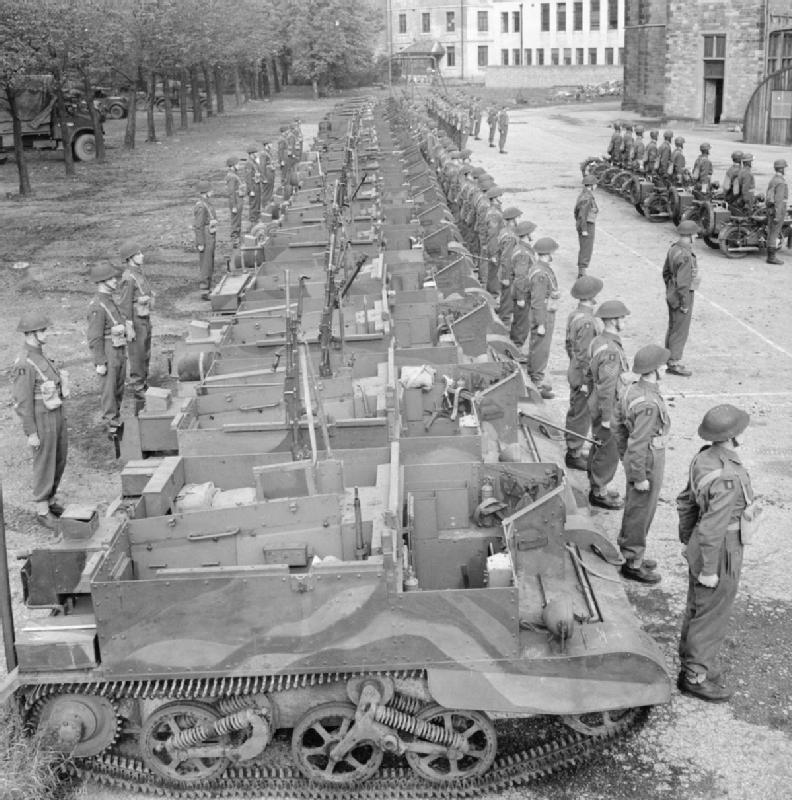 The British Army in the United Kingdom 1939-45 Universal carriers of 1st Battalion, Scots Guards on parade at the Royal Wanstead School, London, 9 October 1942.